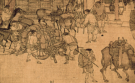 Close-up detail of the Chinese cityscape handscroll Along the River During Qingming Festival, ink and colors on silk, 25.5 × 525 cm.